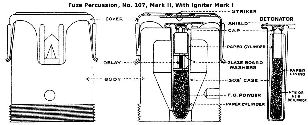 Diagram of British Percussion Fuze No. 107 Mk II, with Igniter Mk I, World War I. As used with : 2 inch Medium Trench Mortar 9.45 inch Heavy Mortar Commonly known as "Newton's fuze".